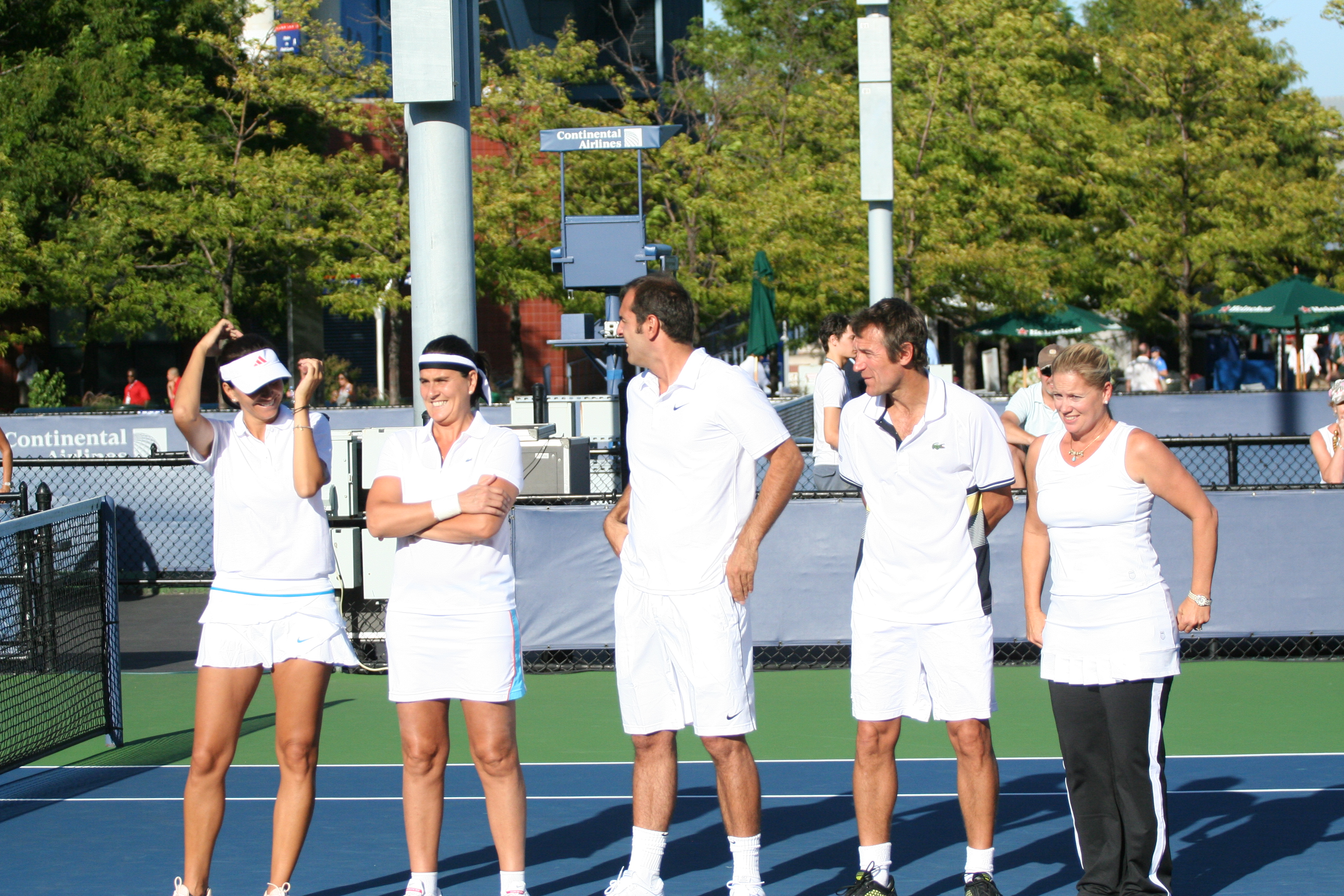 U.S. Open Champions Team Tennis, Sept. 8, 2010